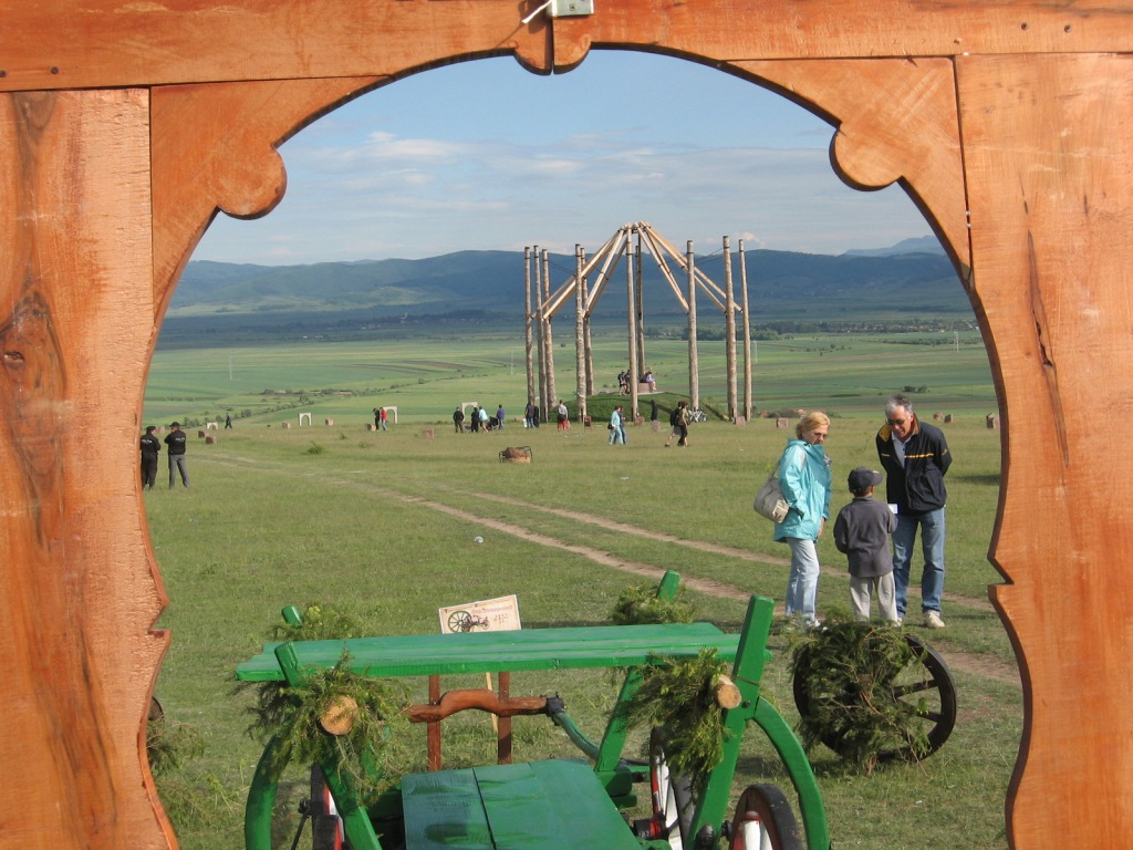 Covasna County,Moacşa, Óriás-pincetető